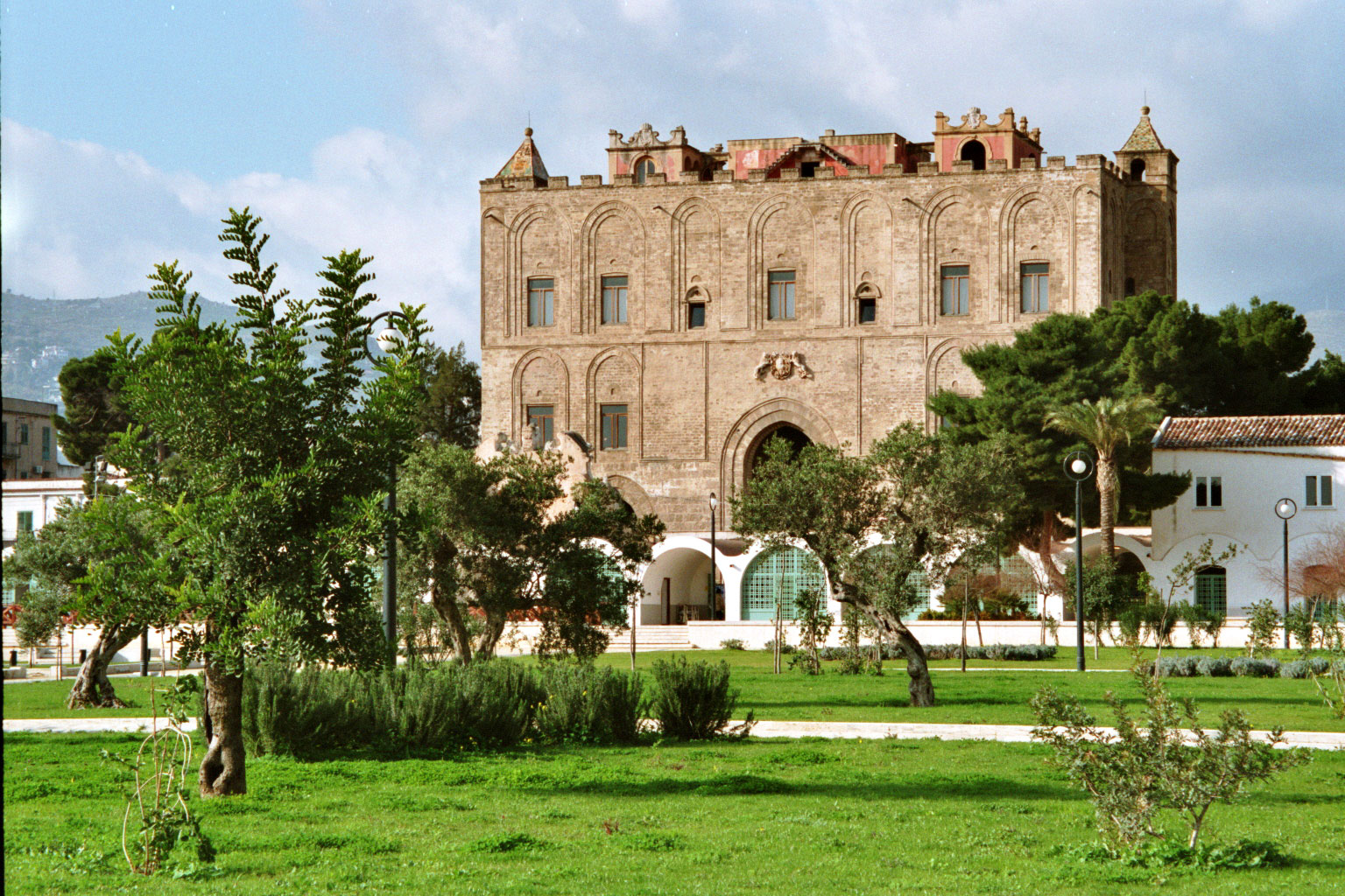 Zisa, Palermo Main facade seen from the park